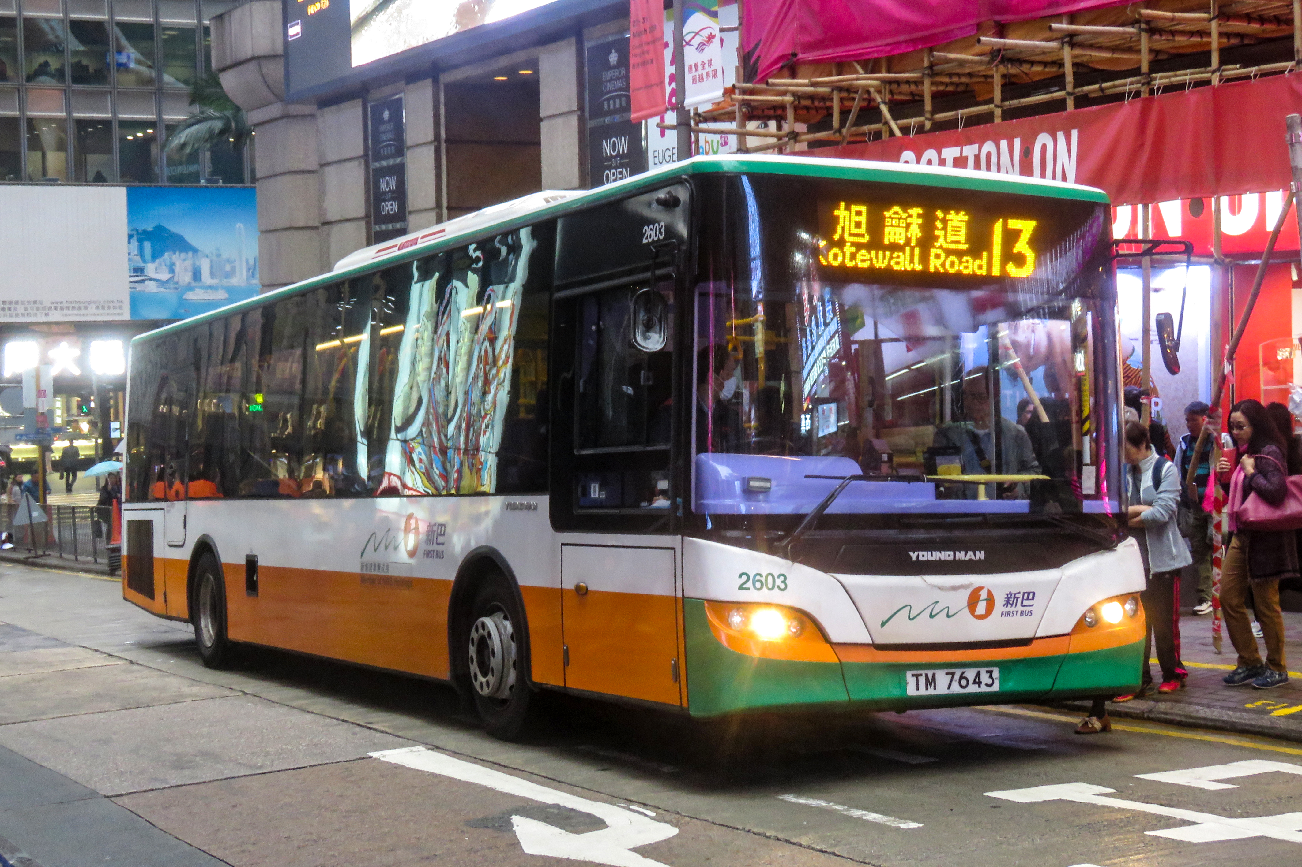 Not the active hours of Lan Kwai Fong at that moment.